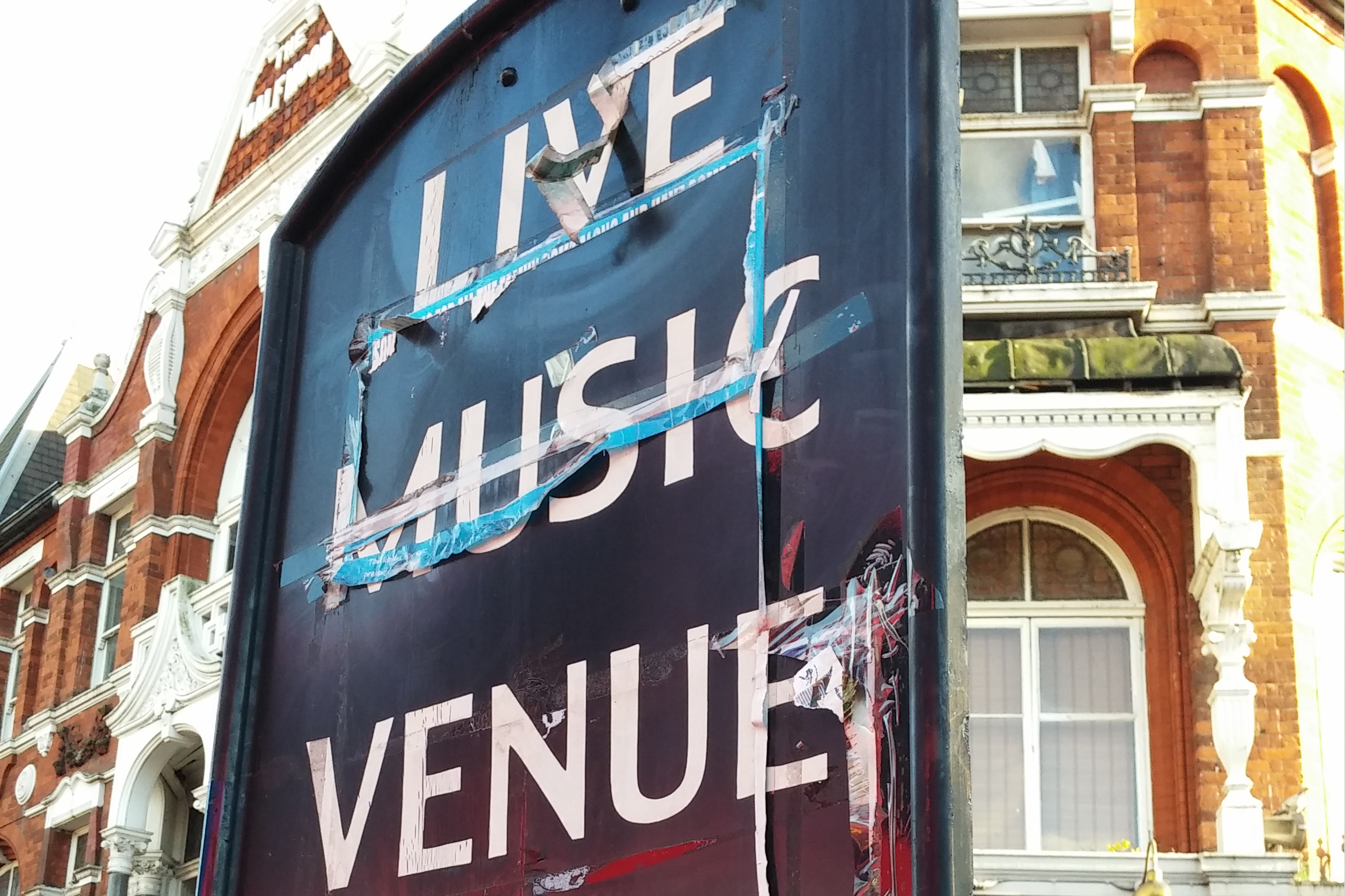 Photo of live music venue sign outside the Half Moon pub, Herne Hill, London in 2016.